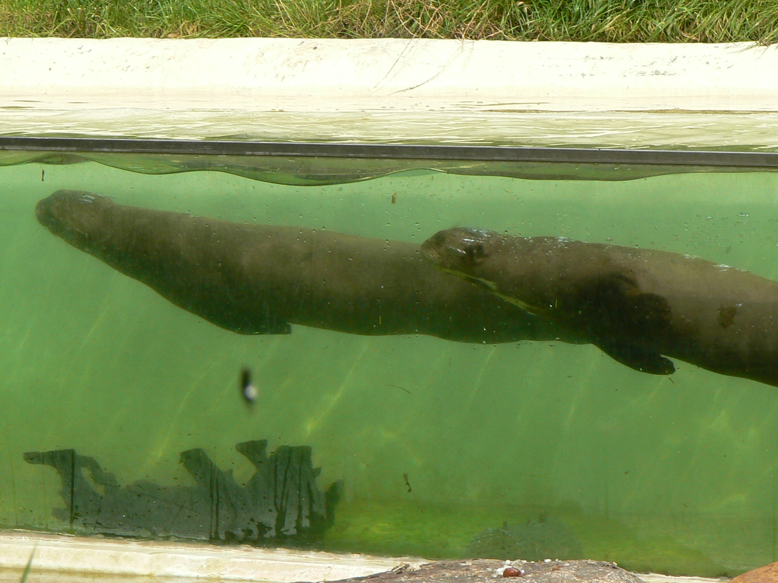 giant otter